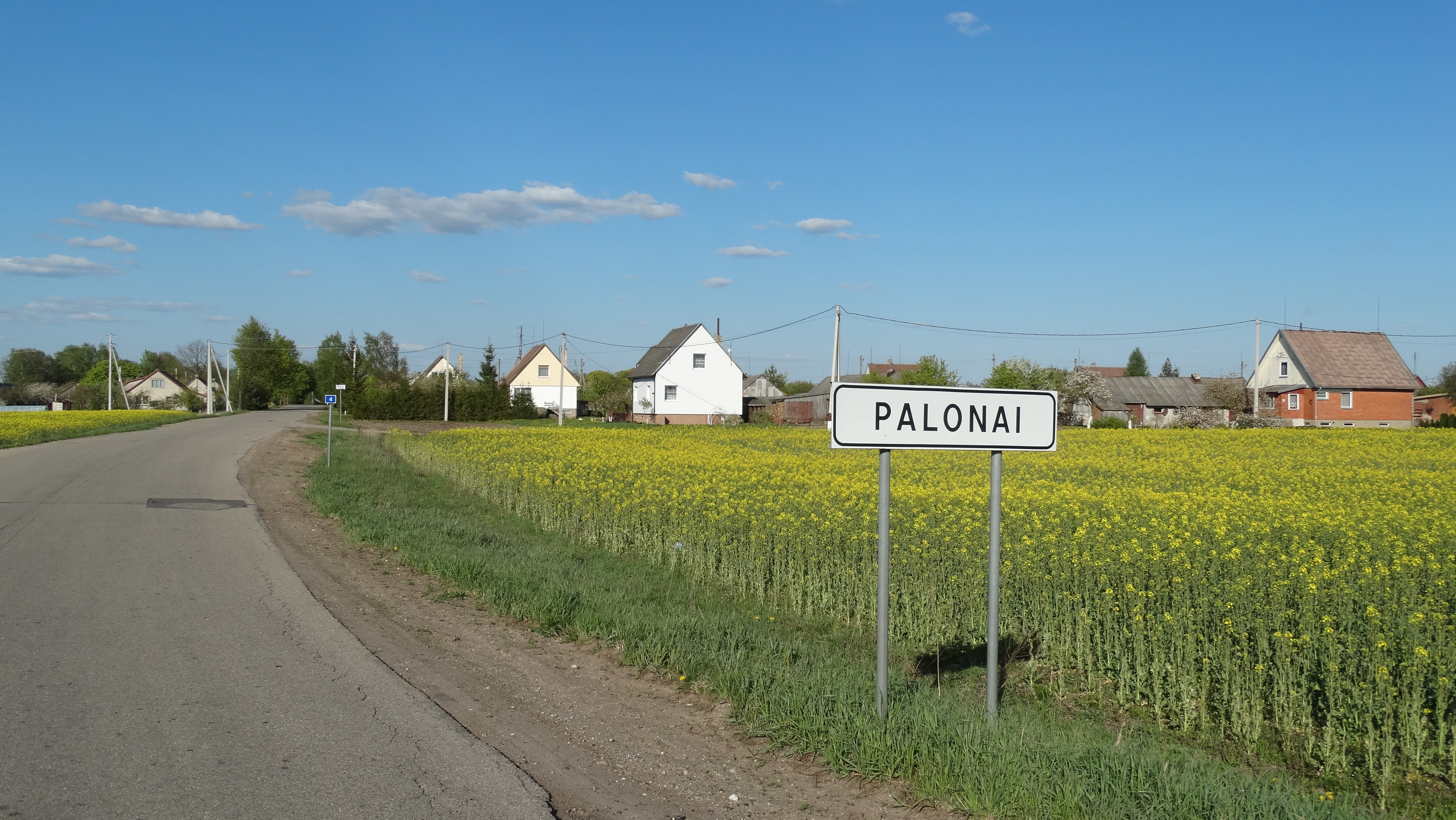 Palonai, Radviliškis District, Lithuania